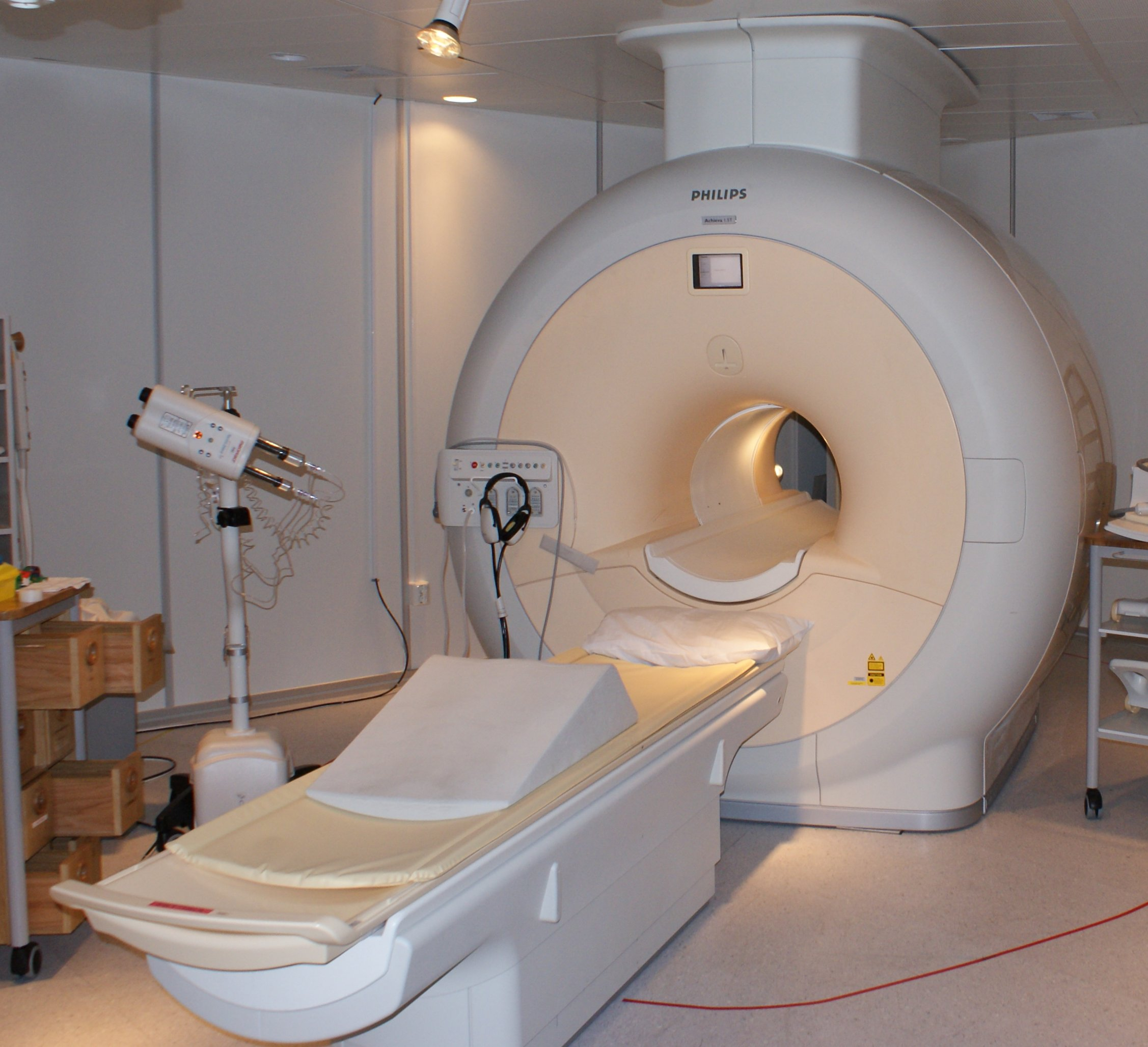 Philips MRI in Sahlgrenska Universitetsjukhuset, Gothenburg, Sweden.